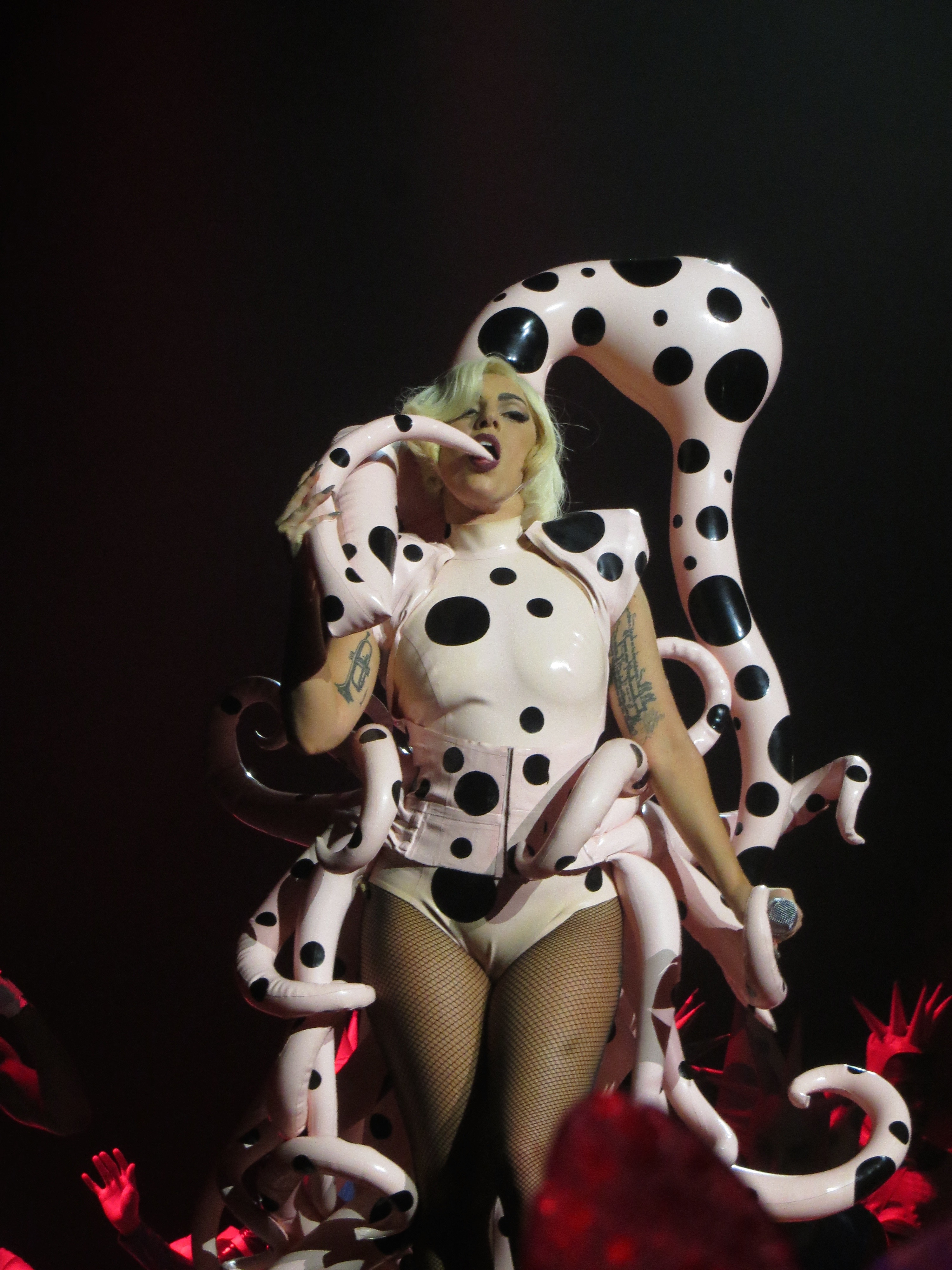 Lady Gaga performing at SEE Hydro in Glasgow, UK in Oct. 19, 2014.